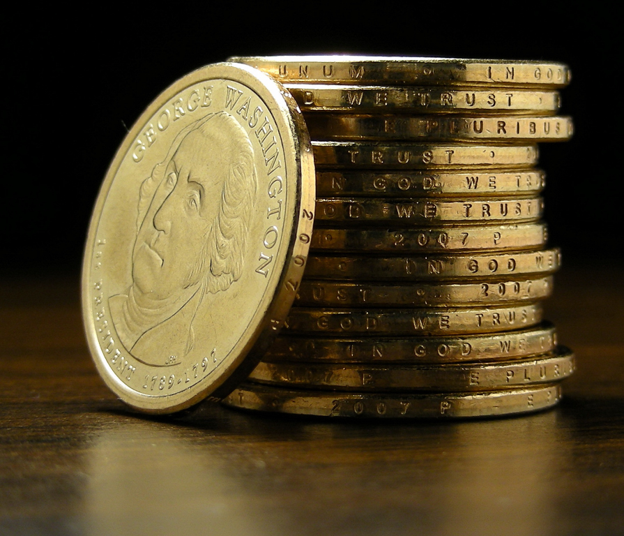 Presidential $1 Coin Program, photo: Bill Koslosky, MD